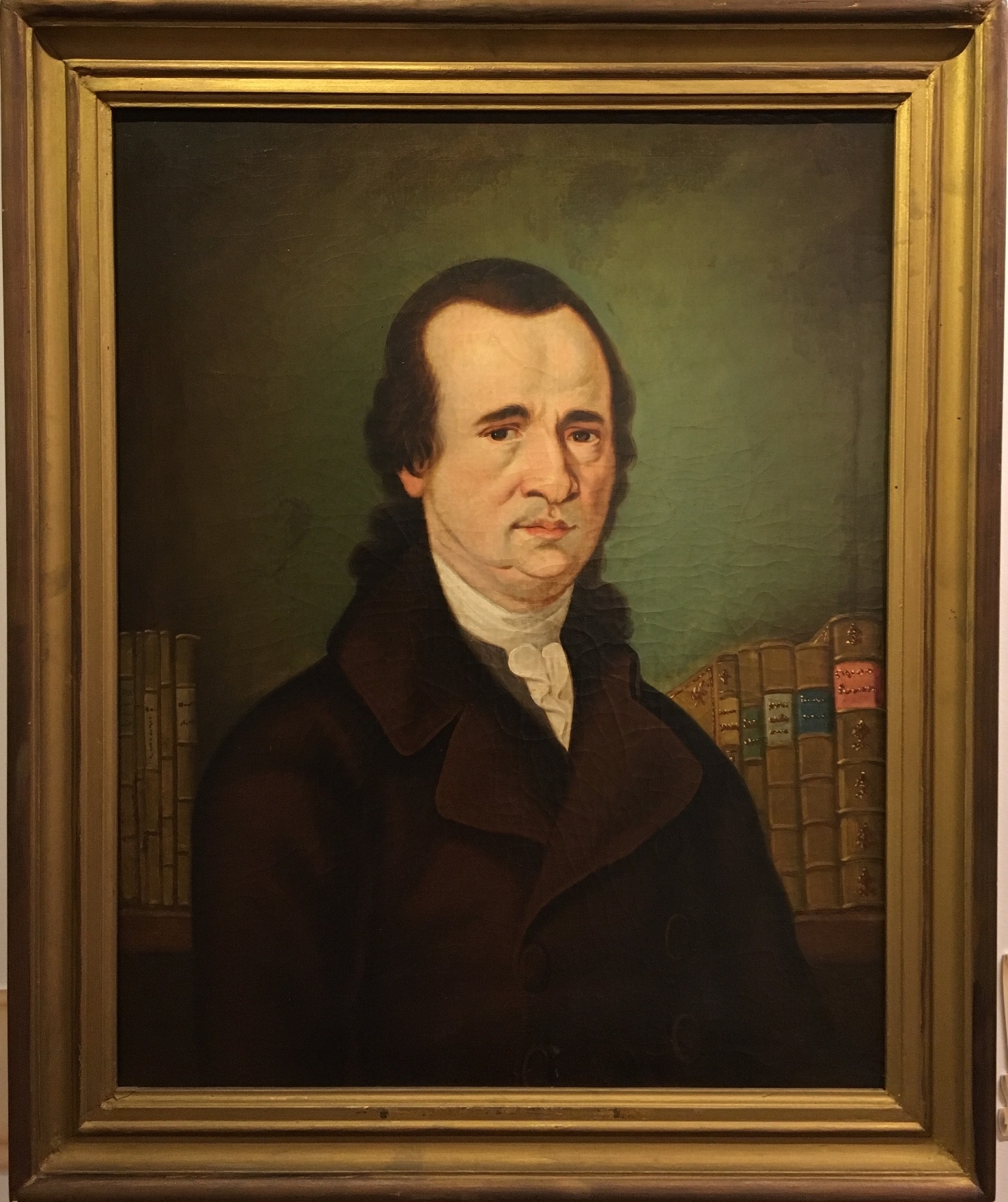 Portrait of Dositej Obradović, by Jozeš Peški